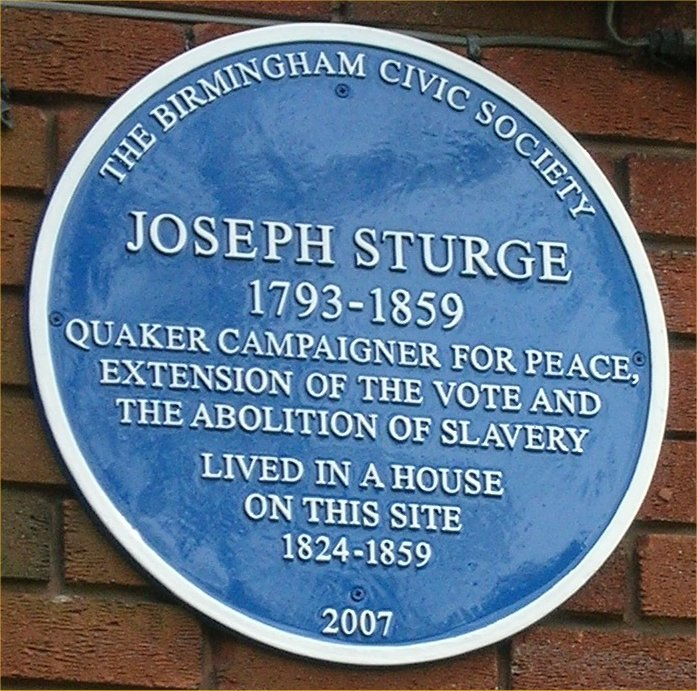 Blue plaque to Joseph Sturge at Eden Croft, Wheeleys Road, Edgbaston, Birmingham, England, where Sturge lived between 1824 and 1859. Unveiled on 24 March 2007. Photographed by me 17 April 2007. Oosoom